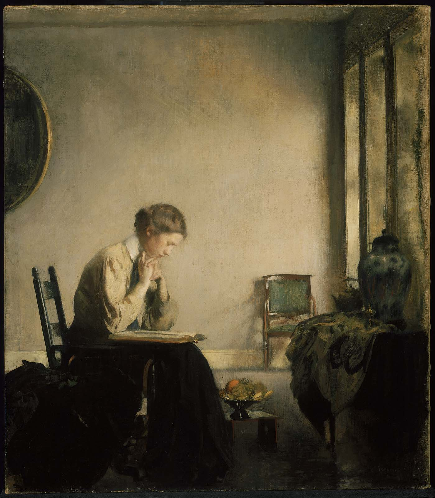 Girl Reading by Edmund Charles Tarbell, oil on canvas, 28 x 24.25 in.; 71.2 x 61.7 cm Palmer Museum of Art